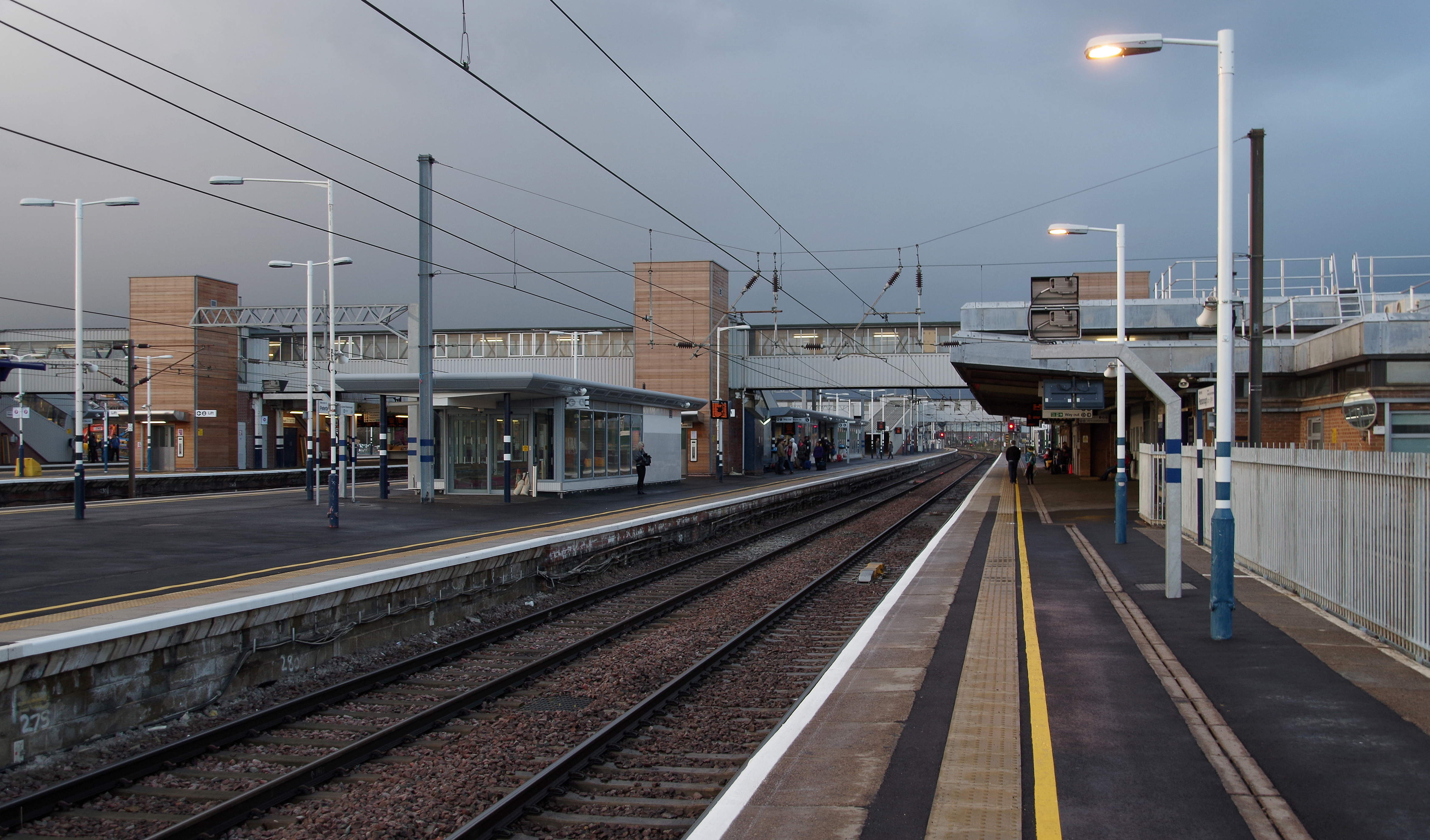 The easternmost platforms at Peterborough railway station.